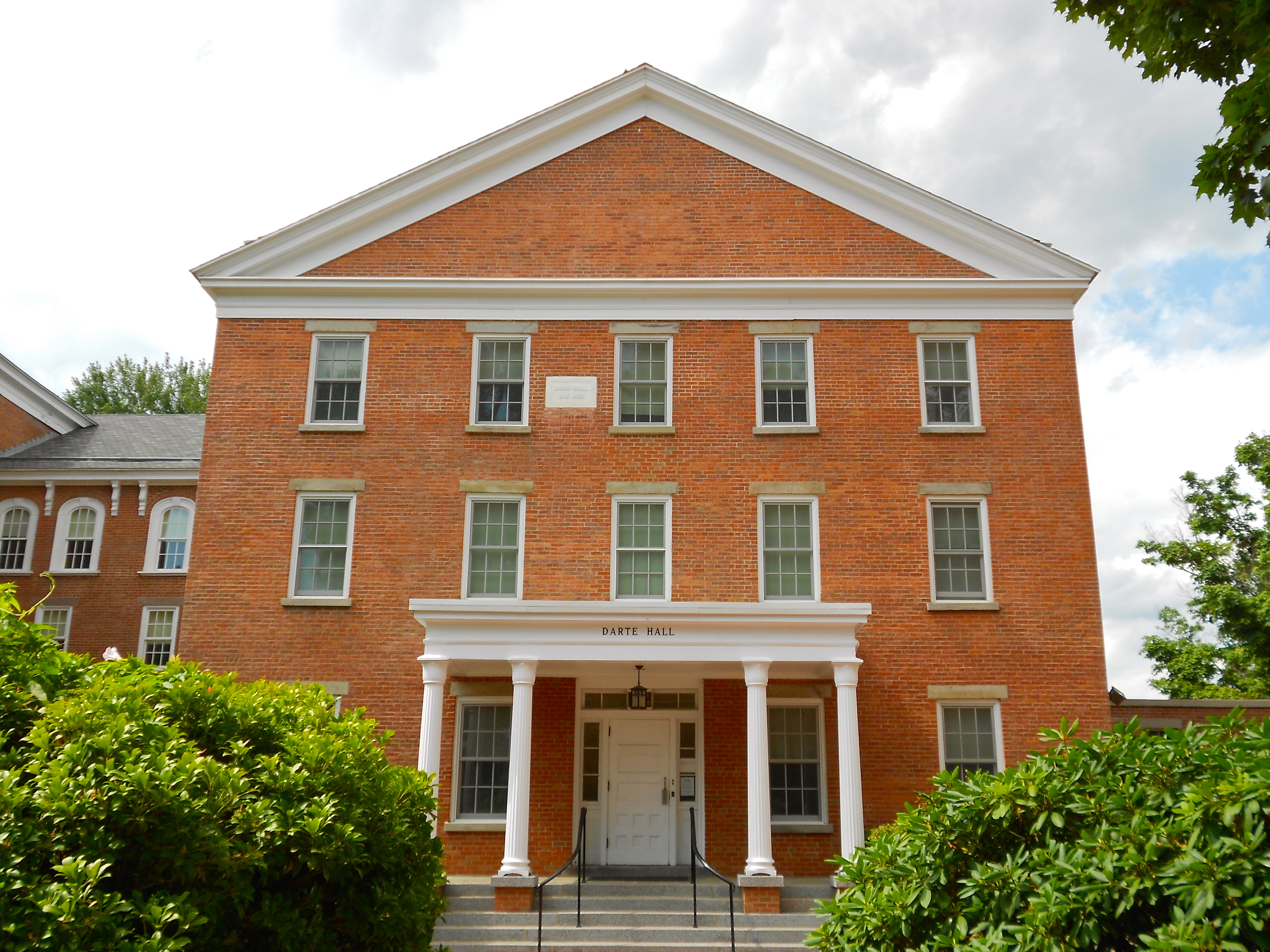 Wyoming Seminary, on the NRHP since August 6, 1979, on Sprague Avenue, Kingston, Luzerne County, Pennsylvania